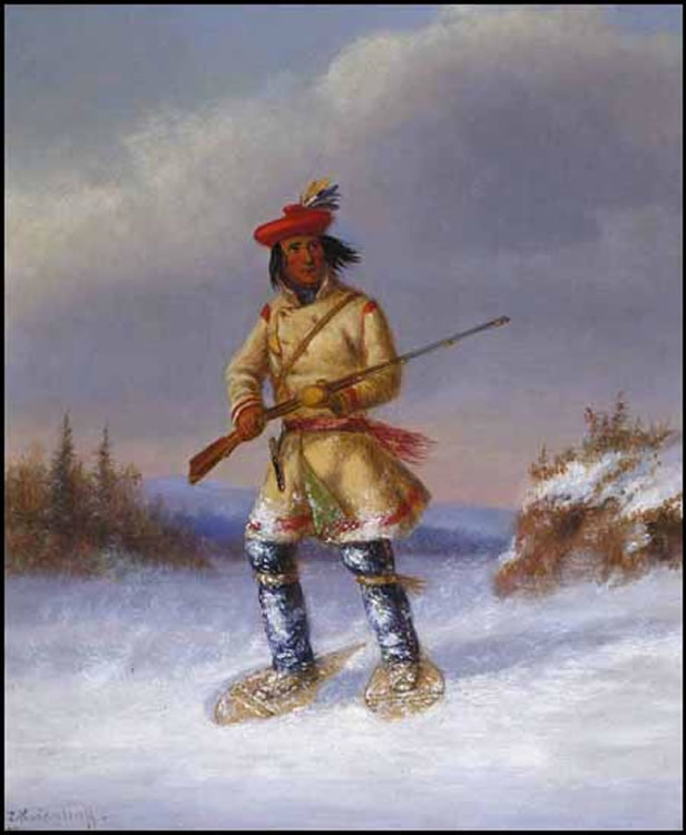 Indian Trapper with Red Feathered Cap in Winter